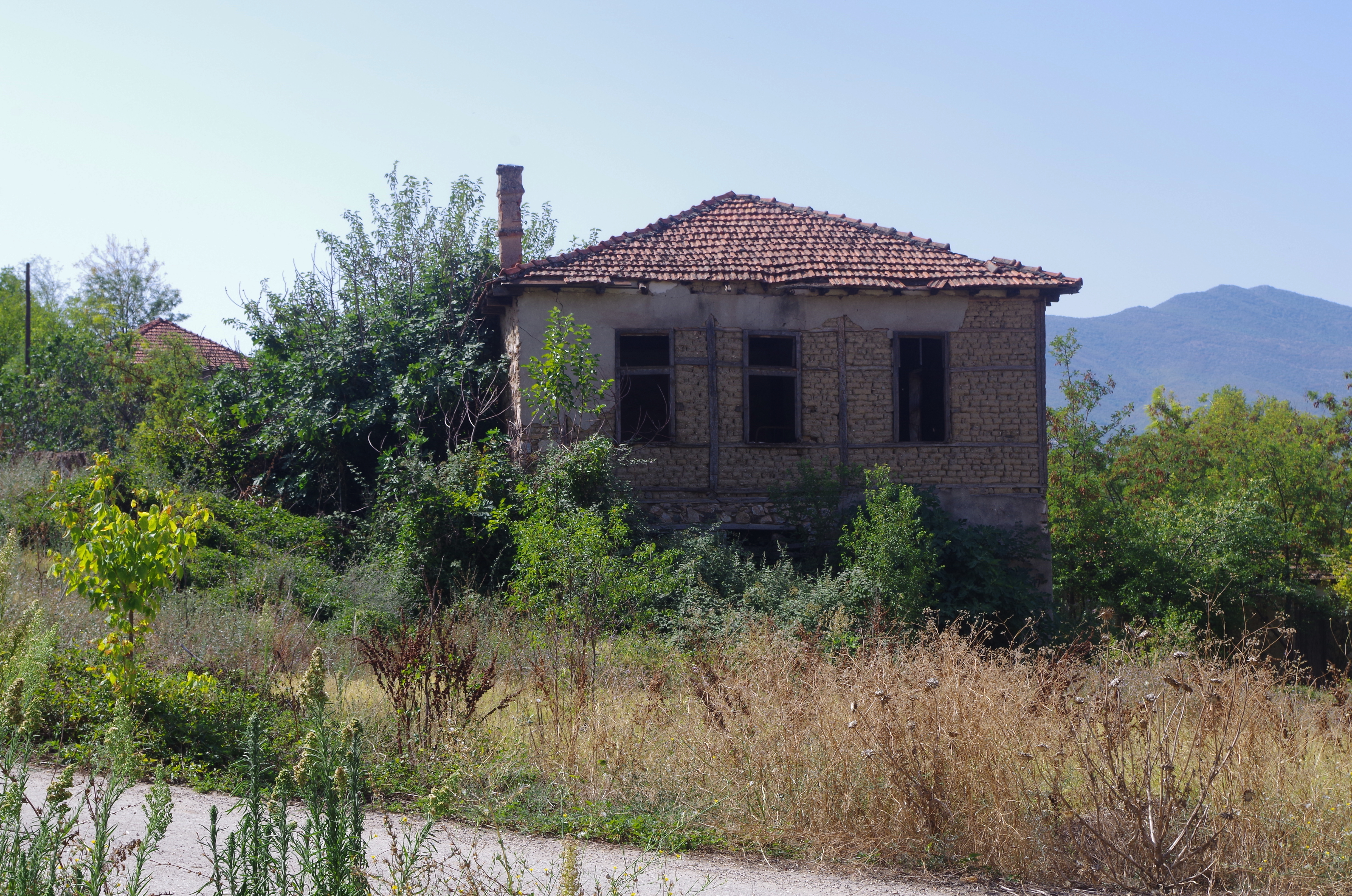 Traditional house in the village of Šivec